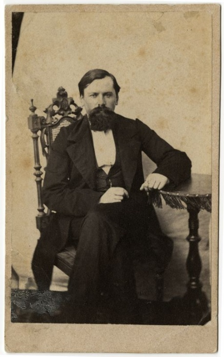 Zygmunt Cytowicz (1828–1863)